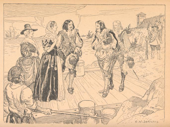 Meeting of Francoise Marie Jacquelin and Charles de la Tour in 1604.